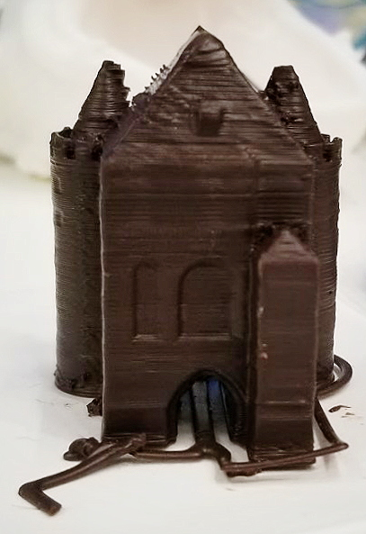 3D printed chocolate using Wiiboox Sweetin printer